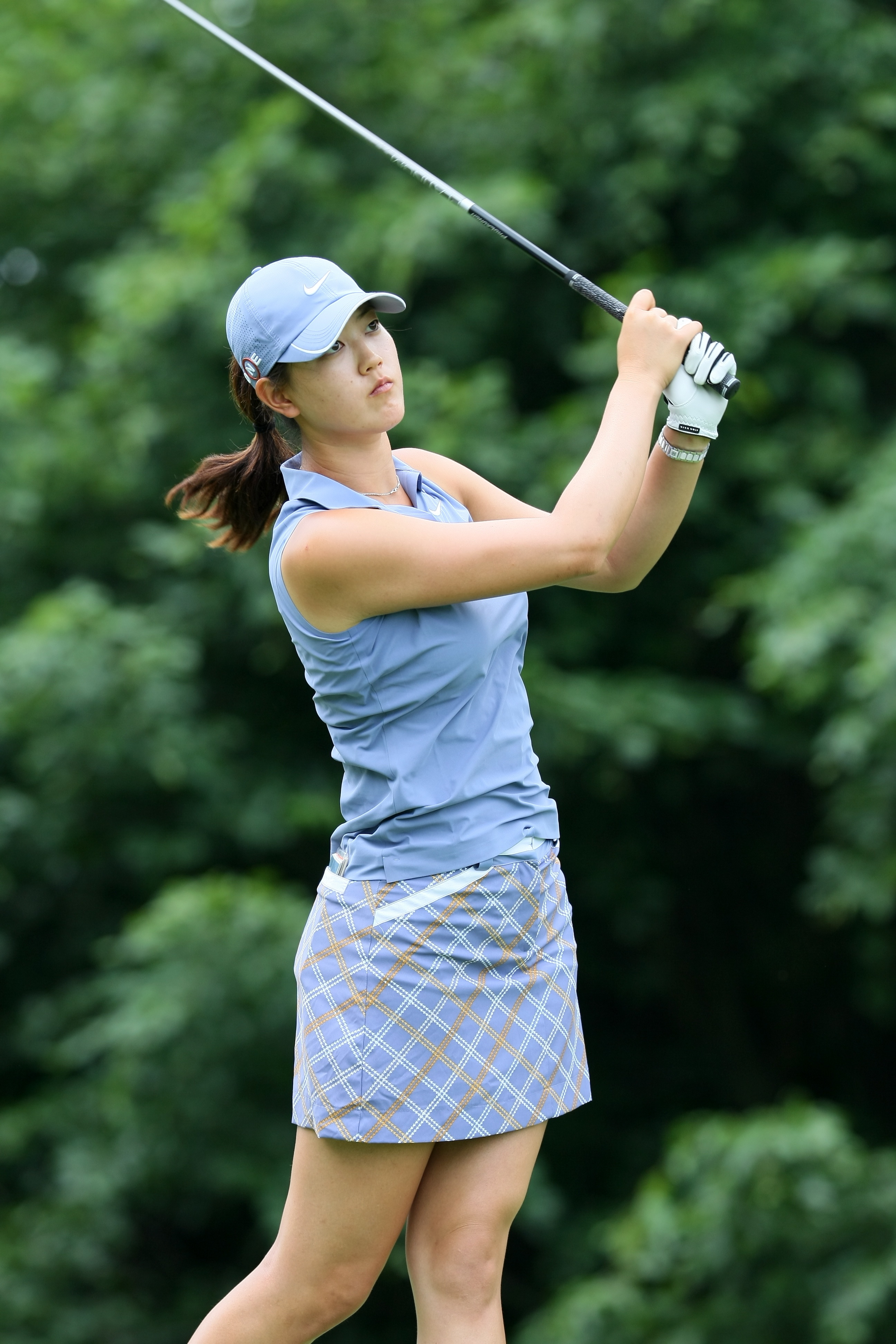 HAVRE DE GRACE, MD - JUNE 09: Michelle Wie (USA) during Pro-Am before 2009 LPGA Championship held at Bulle Rock Golf Course, on June 9, 2009 in Havre de Grace, Maryland. (Photo by Keith Allison)